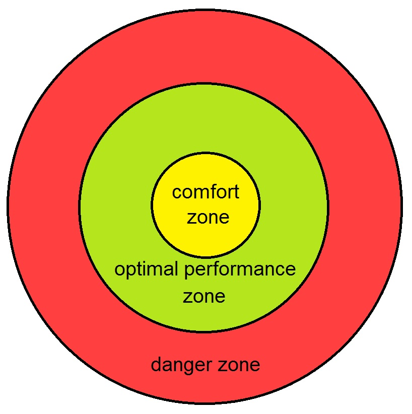 about comfort zone and related theories.